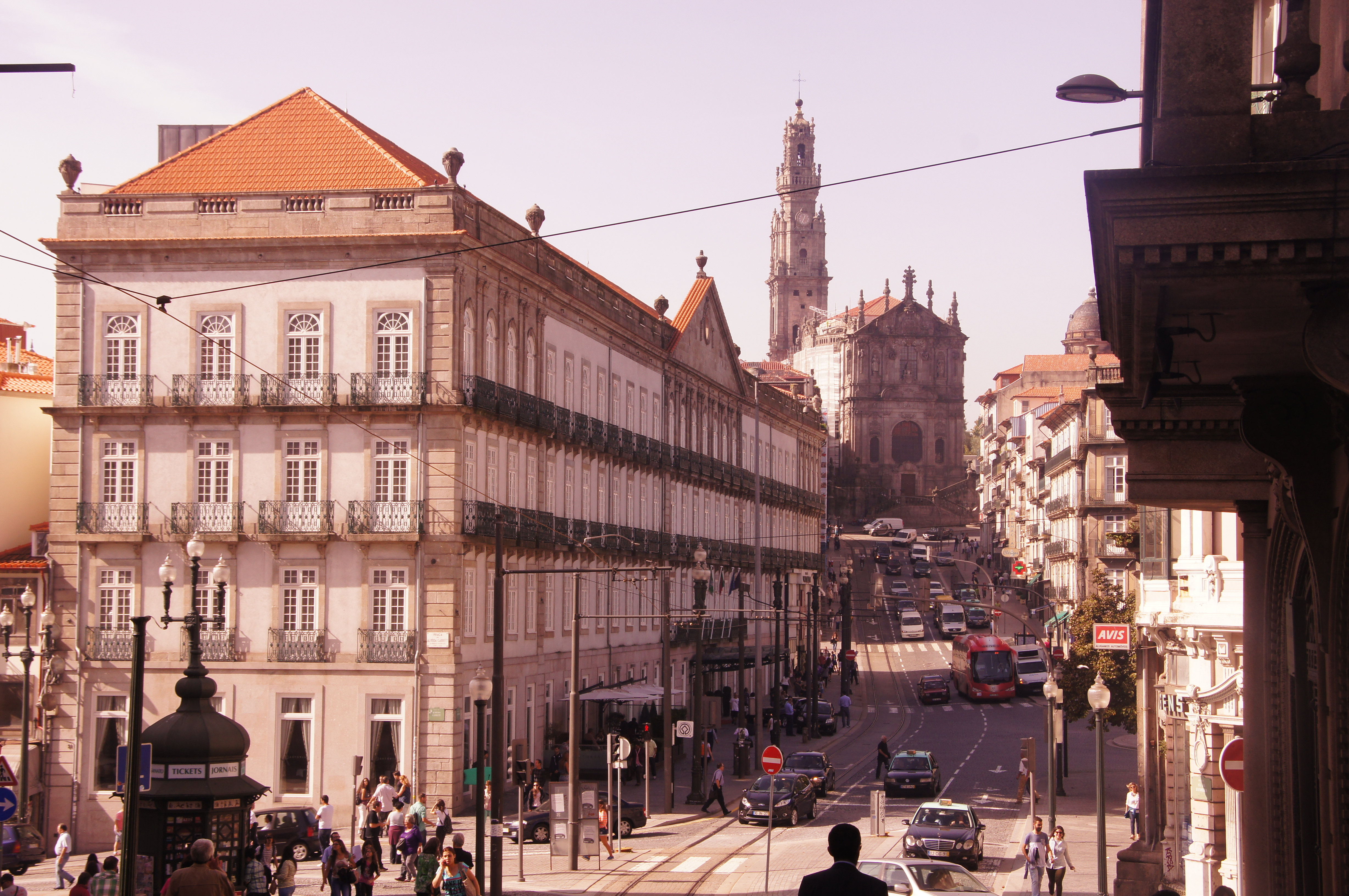 Around the town. The Igreja dos Clérigos and the Torre dos Clérigos seen looking down the Rua dos Clérigos.